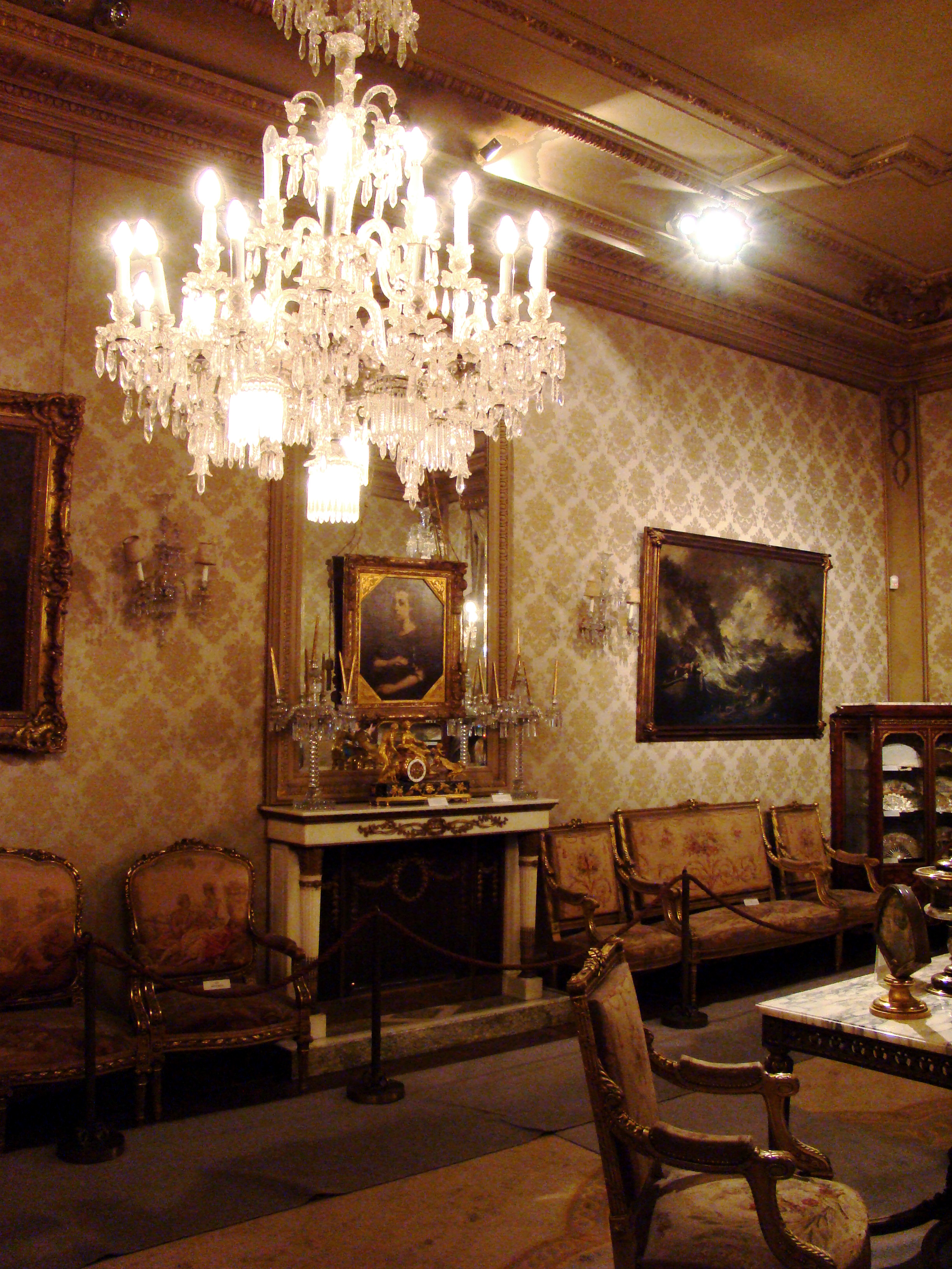 A room of the Firma y Odilo Estévez Municipal Decorative Art Museum, Rosario, Argentina.